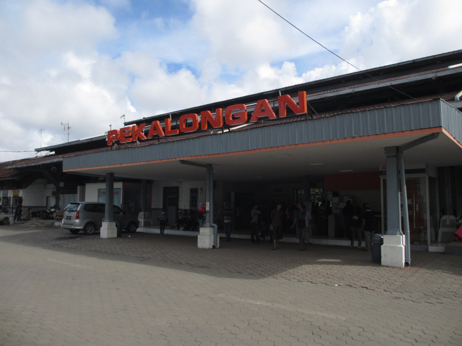 The main door of the Pekalongan Railway Station.